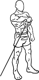 an exercise of shoulder